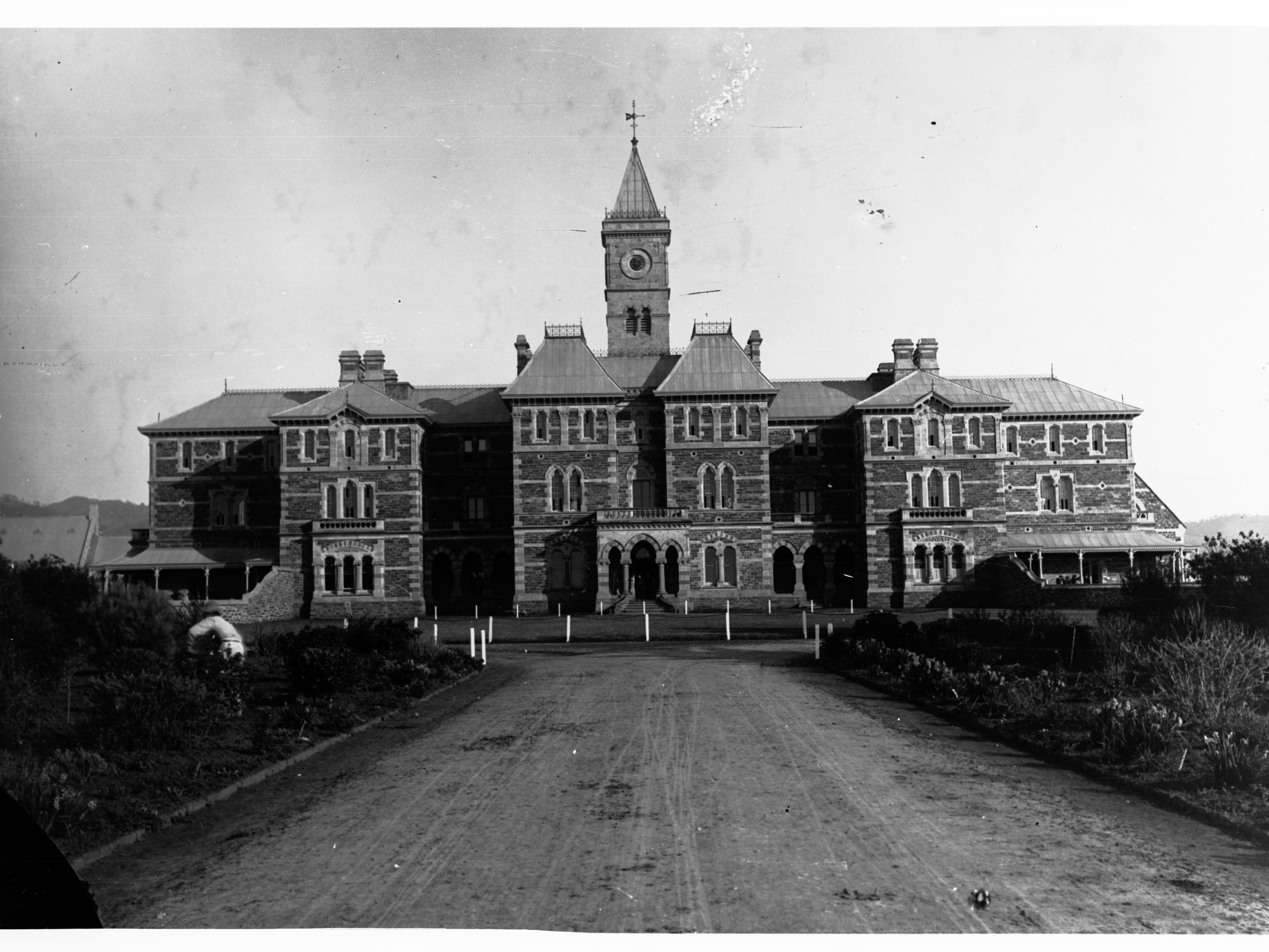 Not "Scotch College Front View" as stated on Microfiche, Parkside Mental Hospital. See GN03355. (G Brooks) - Re-titled to reflect G Brooks' notes. Now Glenside